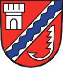 Coat of arms of Bockelnhagen